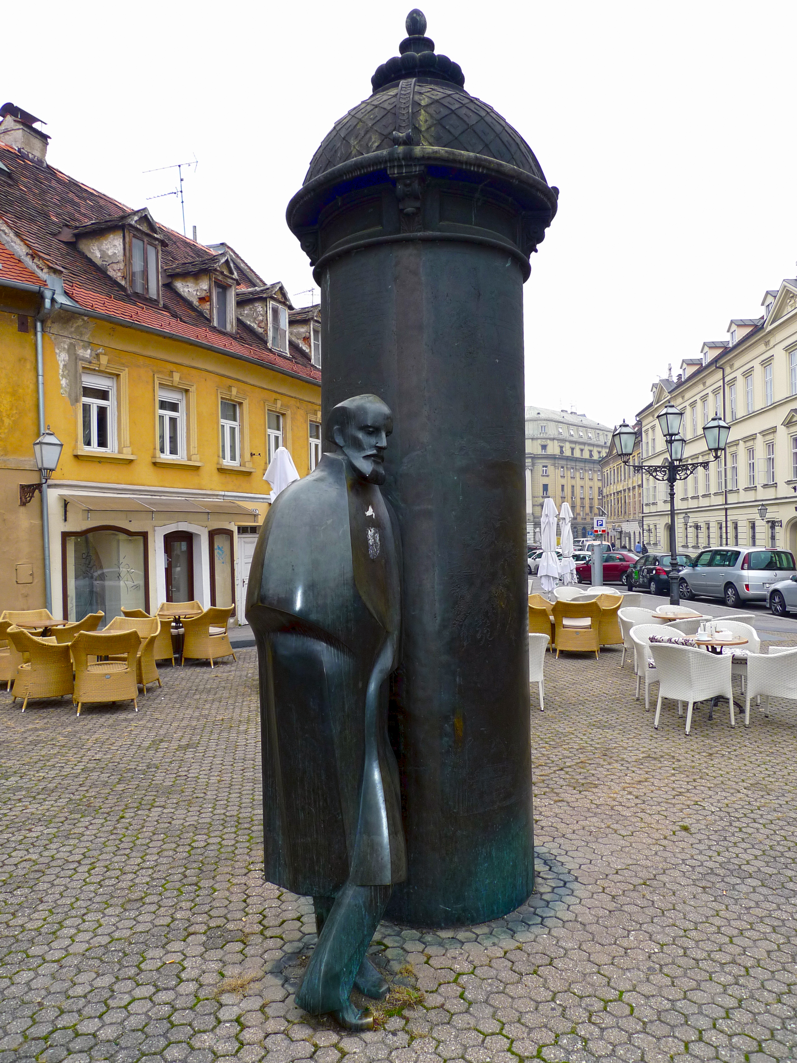 Monument August Šenoa at Vlaška Street, Zagreb.